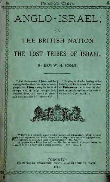 British Israelism publication